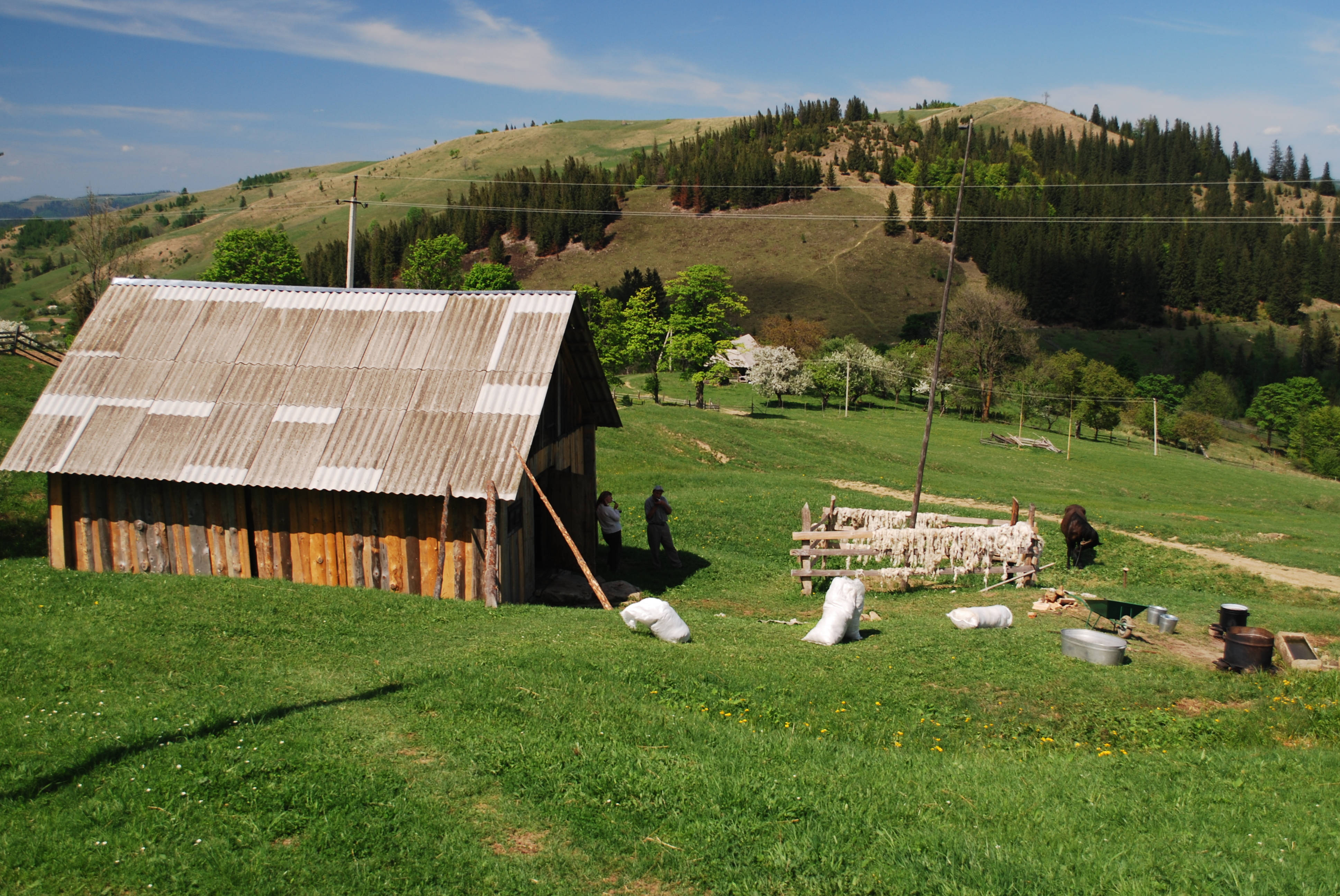 Pysanyj Kamin (Painted Rock), drying the wool